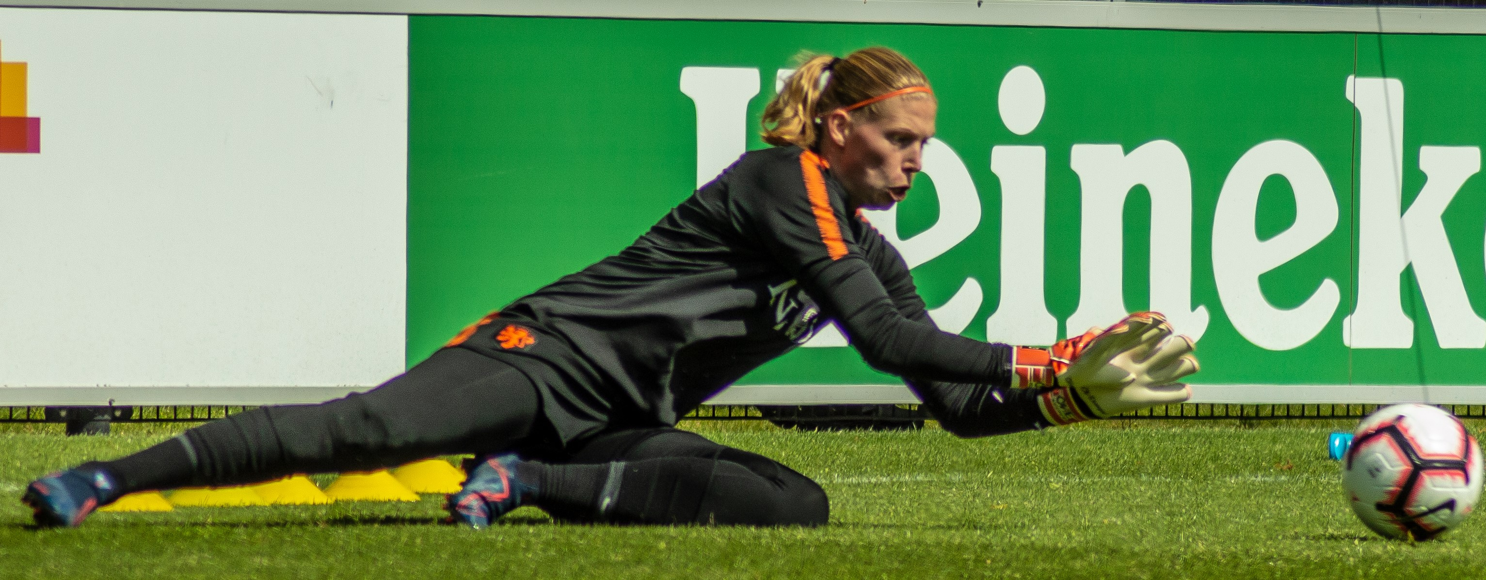 Jennifer Vreugdenhil training at the KNVB Campus on May 14, 2019.